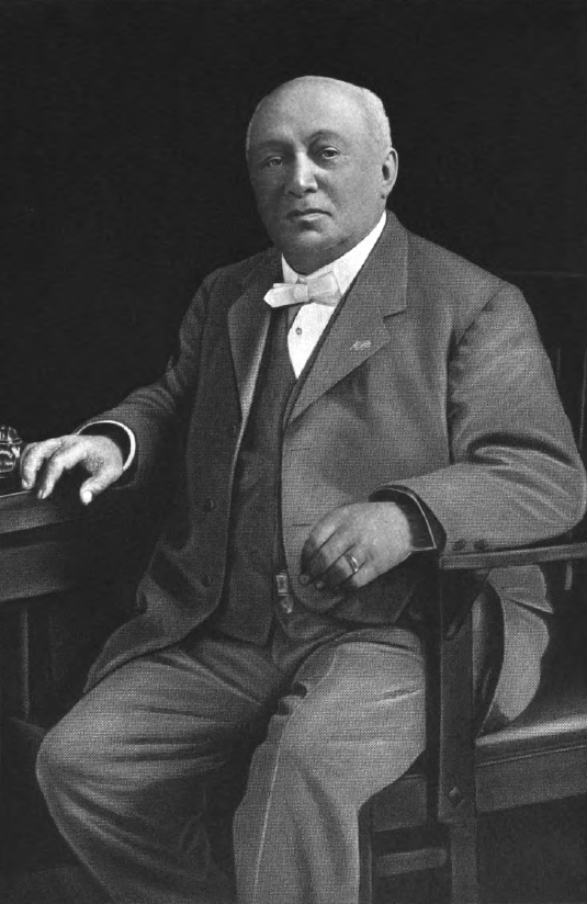 Emil Ganz (August 18, 1838 – August 2, 1922), German-American businessman and three time Mayor of Phoenix, Arizona